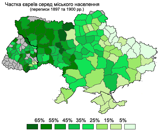 Share of jews in urban population, 1897 and 1900 censuses